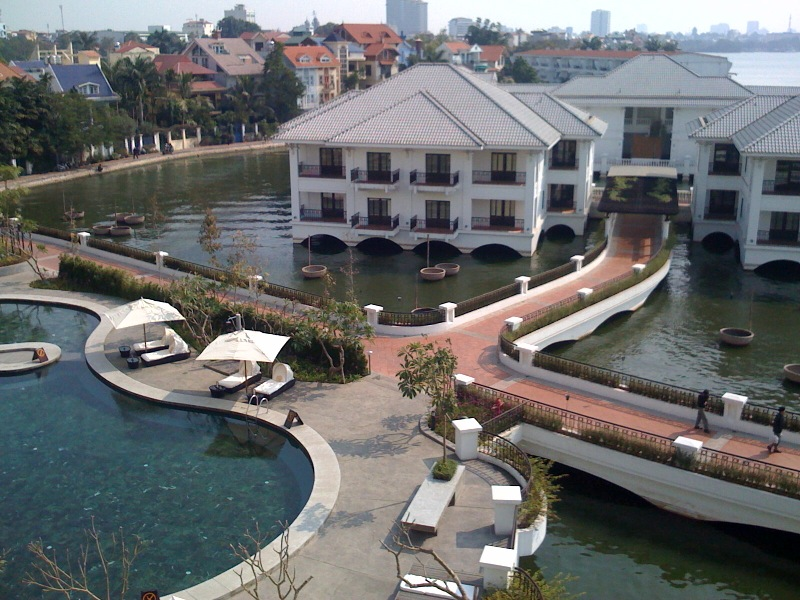 Man I love these gigs! This is the view from my room. Sent from Jon's iPhone